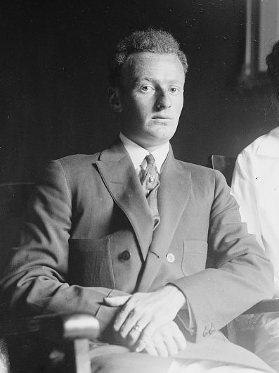 Bain News Service, publisher. William Weightman III and Bride [between ca. 1910 and ca. 1915] 1 negative : glass ; 5 x 7 in. or smaller. Notes: Title from unverified data provided by the Bain News Service on the negatives or caption cards. Forms part of: George Grantham Bain Collection (Library of Congress). Format: Glass negatives. Repository: Library of Congress, Prints and Photographs Division, Washington, D.C. 20540 USA, General information about the Bain Collection is available at Persistent URL: Call Number: LC-B2- 2799-1